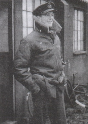 Flight Lieutenant Peter Vaughan-Fowler, outside crew quarters at Tangmere